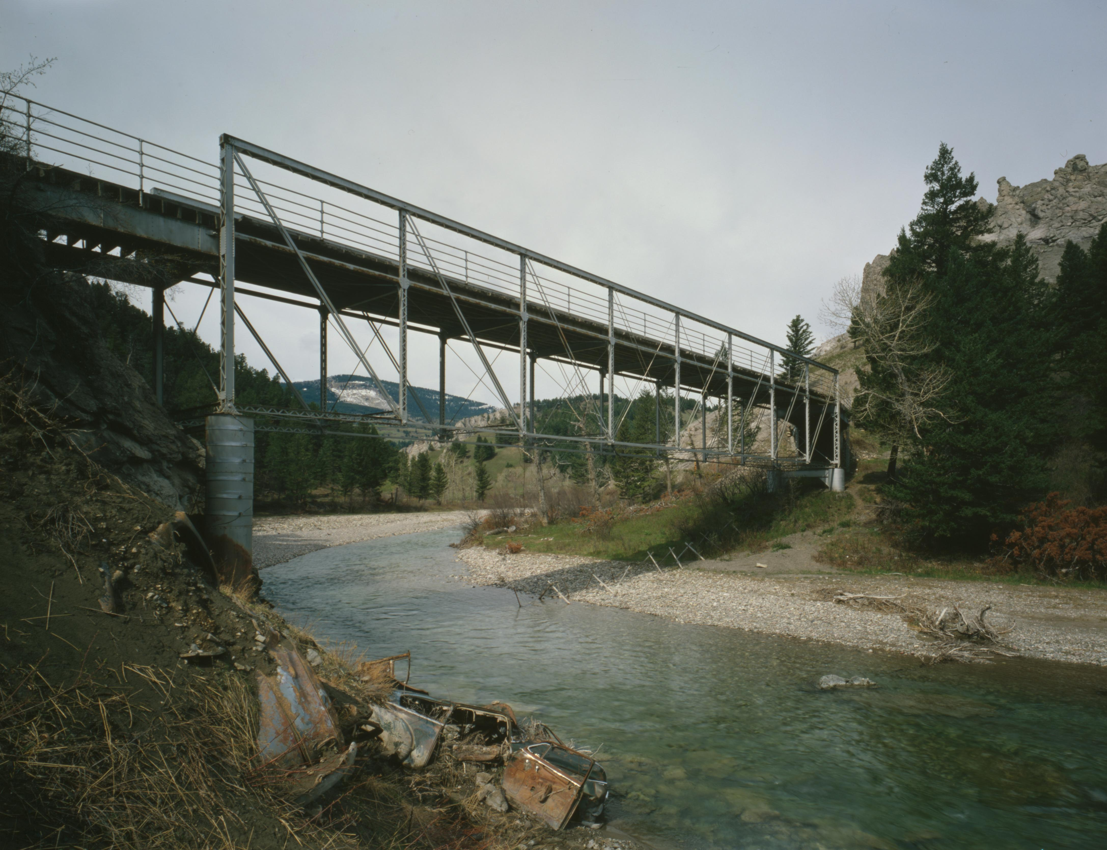 Upstream side of the Dearborn River High Bridge, which carries Bean Lake Road over Dearborn River southwest of Augusta, Montana, United States. One of the few remaining half-deck truss bridges in the United States, it was built in 1897. The bridge is listed on the National Register of Historic Places.